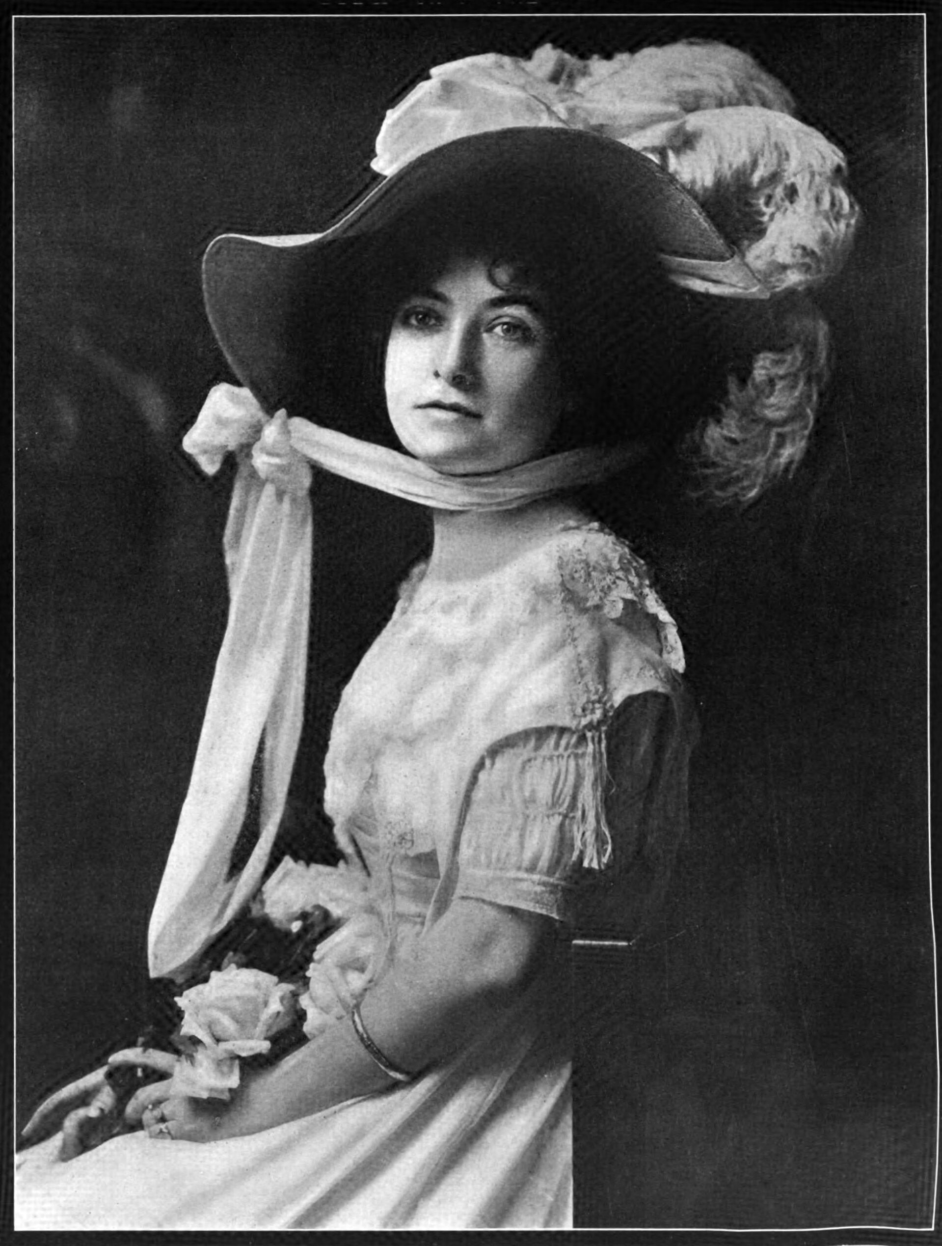 Broadway actress Carrie Bowman in 1908 when she performed in George M. Cohan's The American Idea